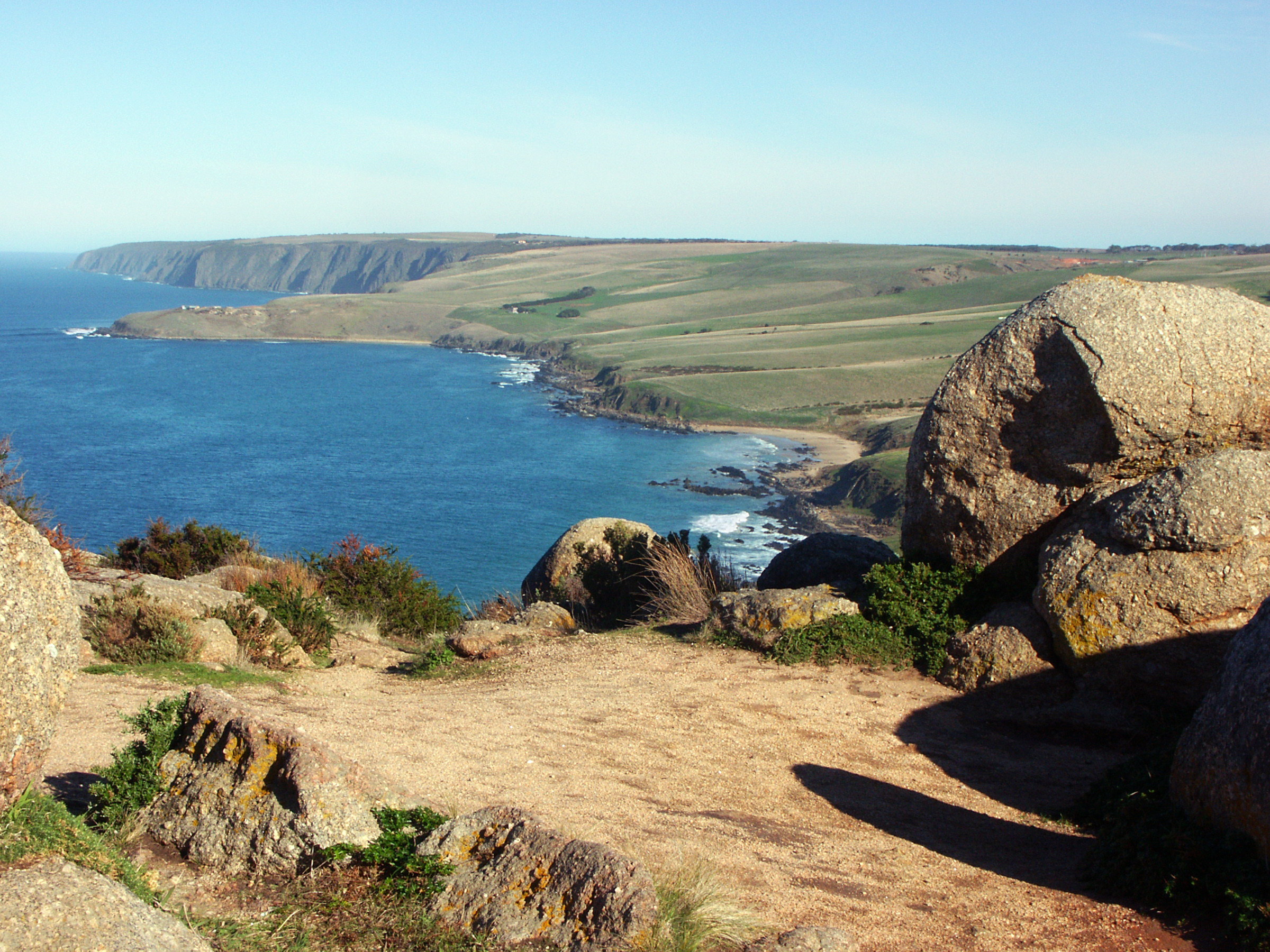 View west from The Bluff at Victor Harbor, South Australia